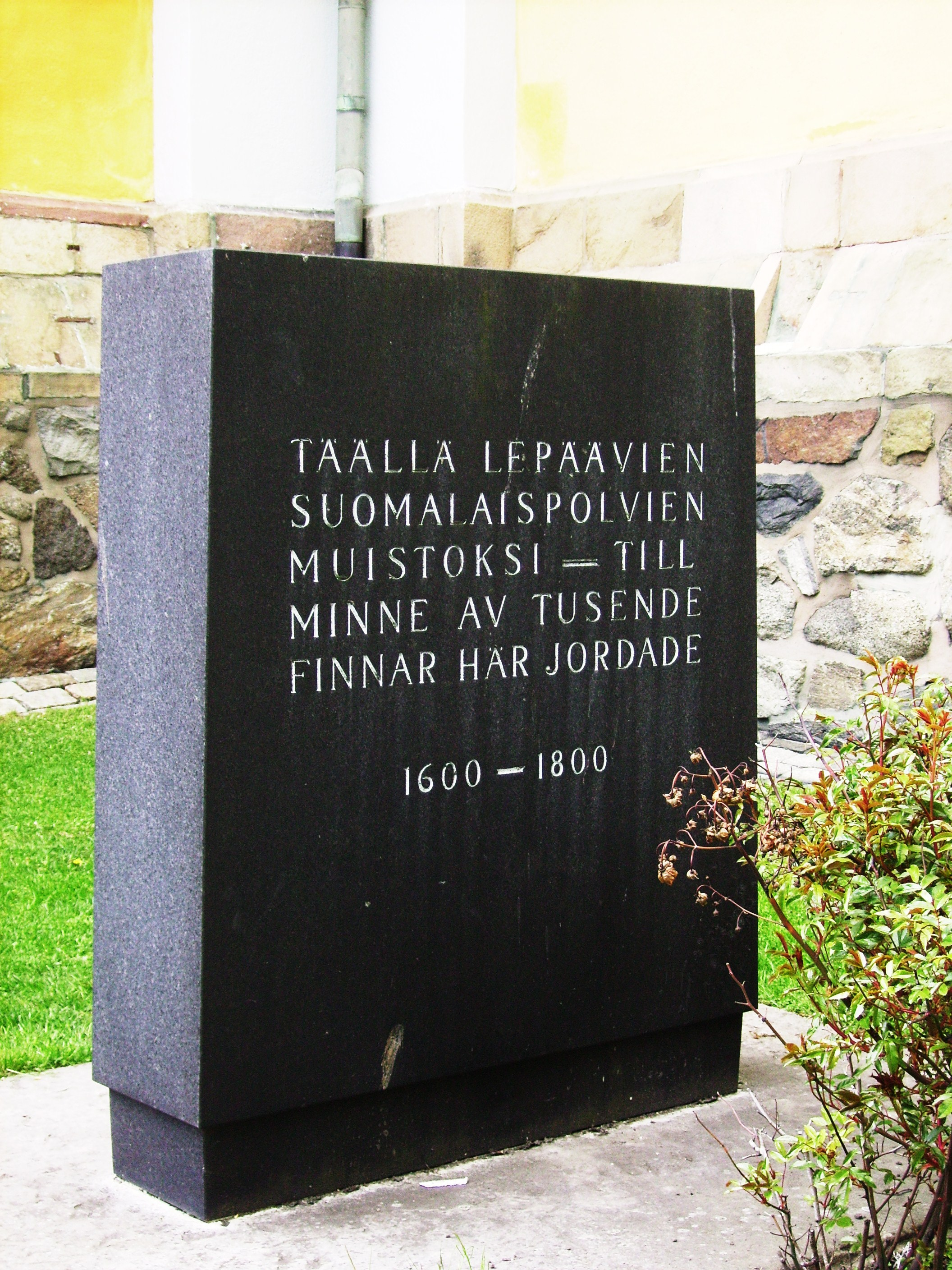 Picture of monument of Finns in Katarina församling